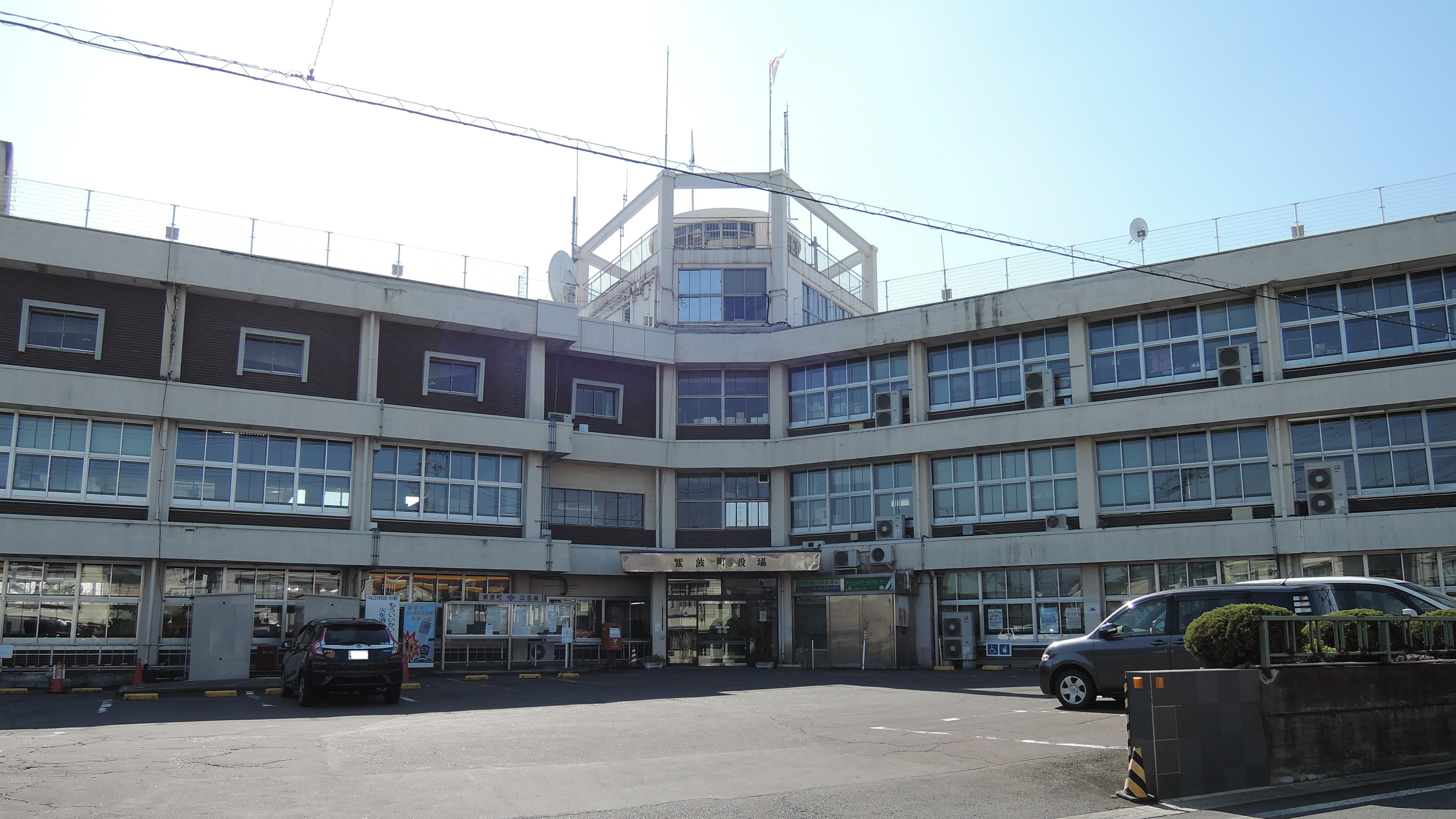 Shiwa town hall,Iwate prefecture,Japan